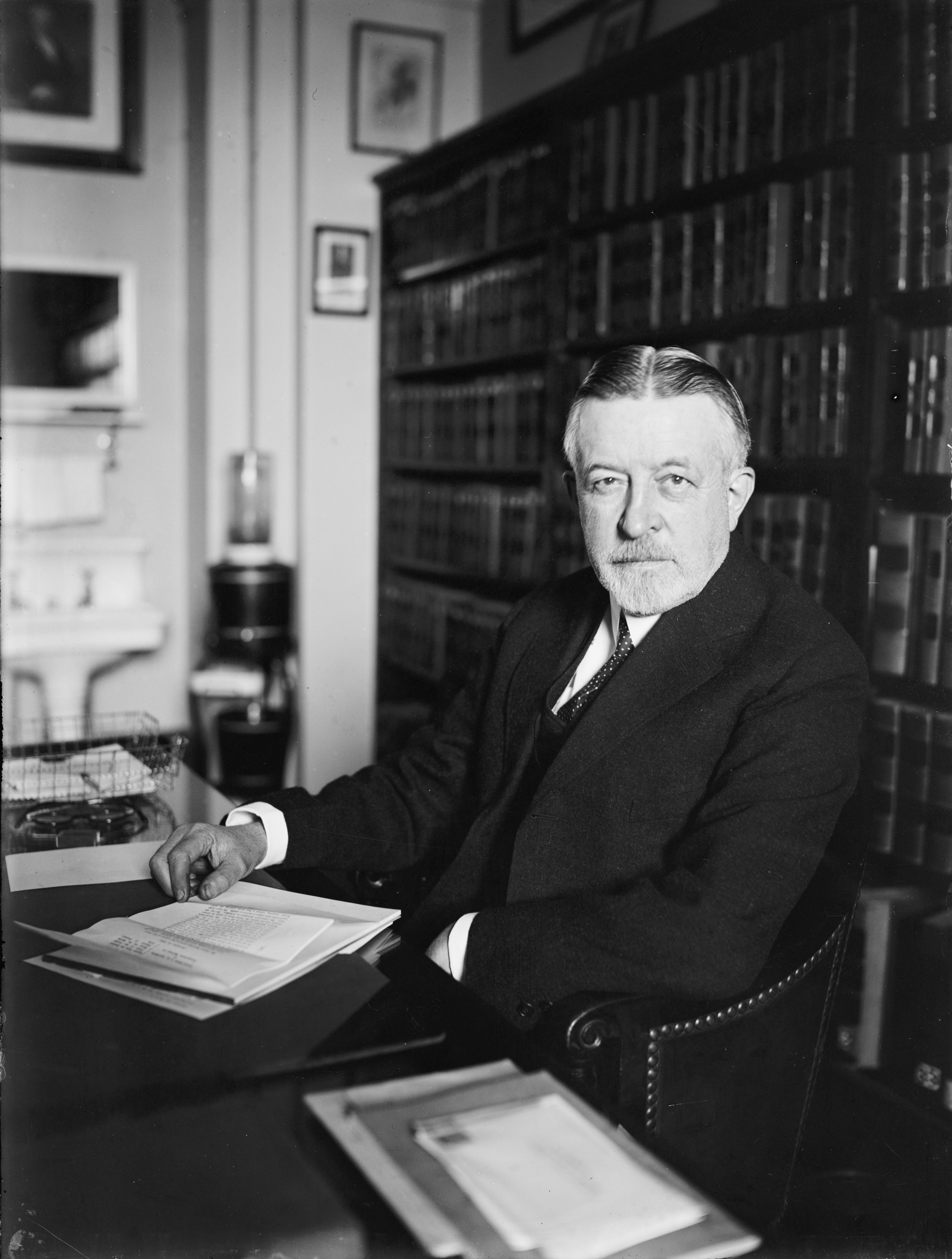 Judge Edward T. Sanford